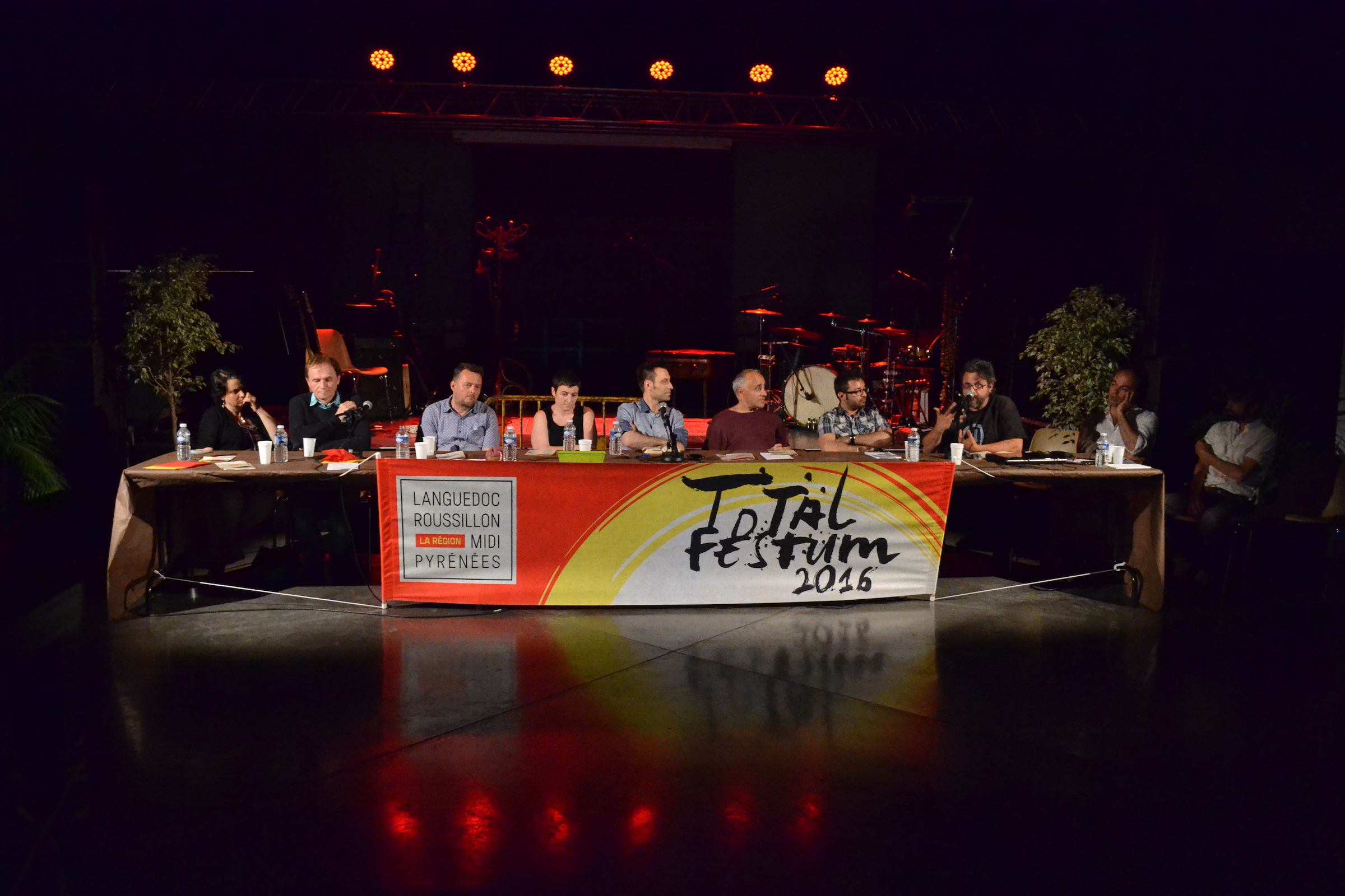 Meeting "Musical creation and recreation" during Euroregional Forum "Heritage and creation" in Castelnaudary in 2016.